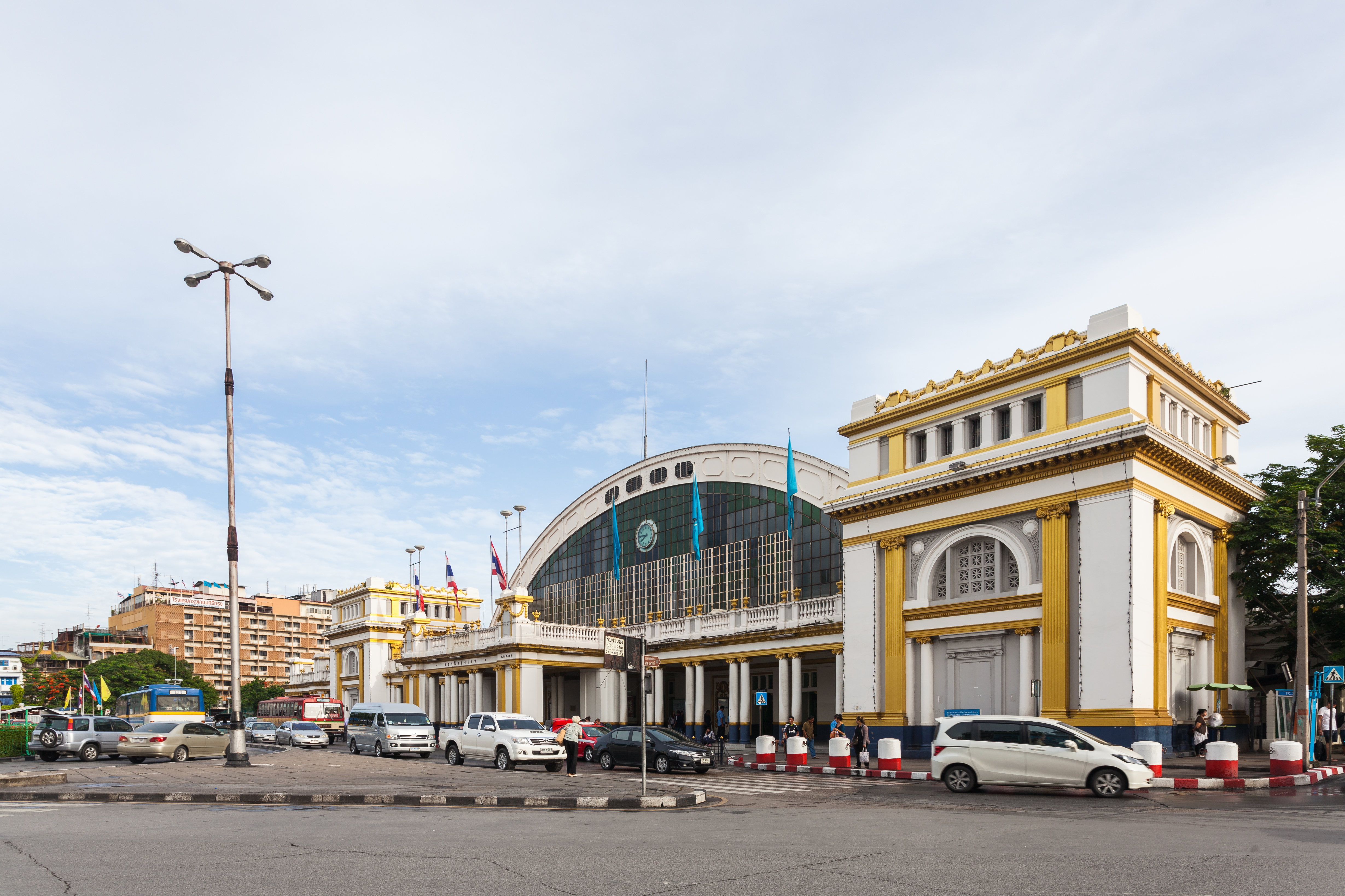 Hua Lamphong Railway Station, Bangkok, Thailand